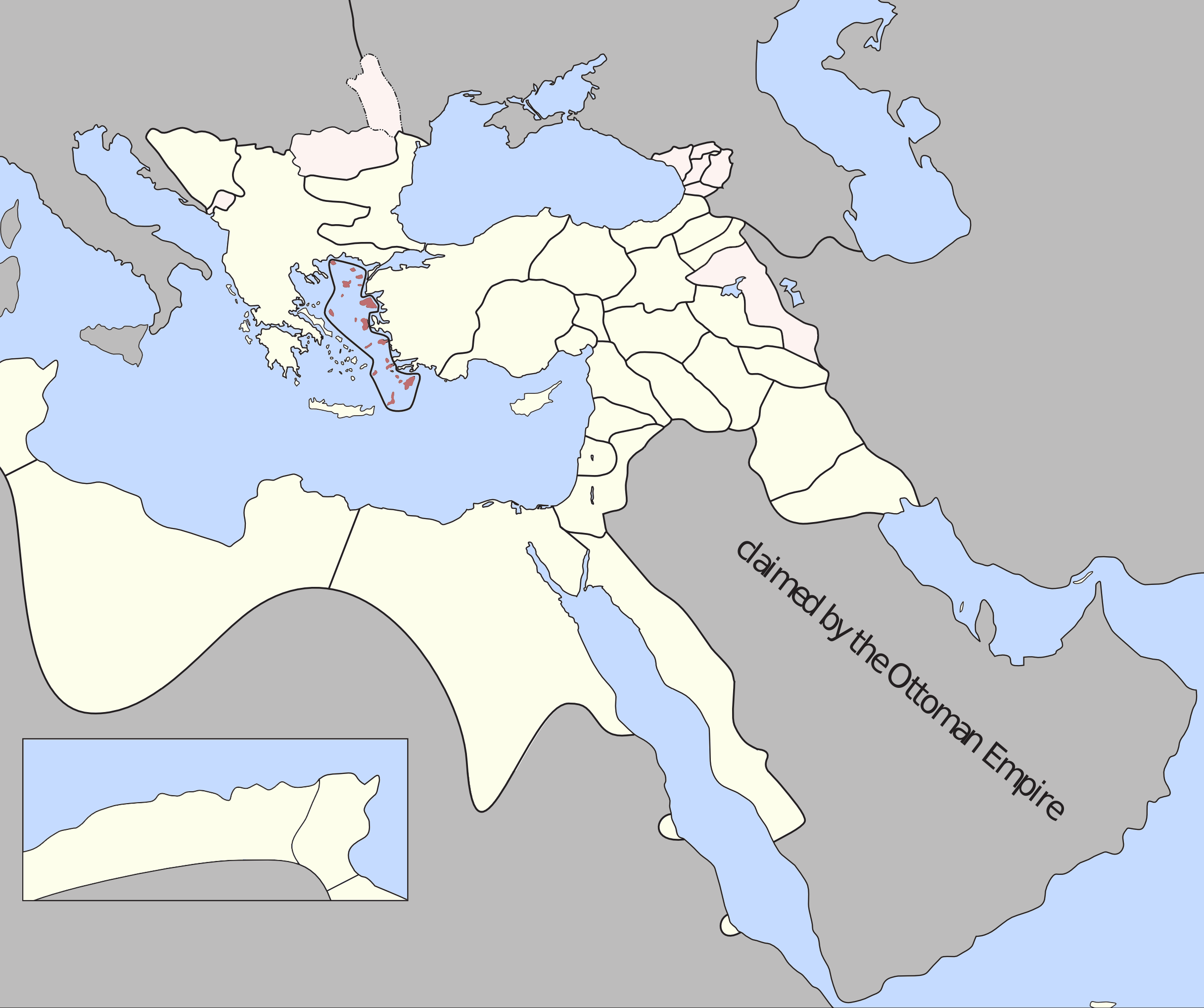 XY Eyalet, Ottoman Empire (1795). Source: A Brief History of the Late Ottoman Empire at Google Books By M. Sukru Hanioglu, Figure 1